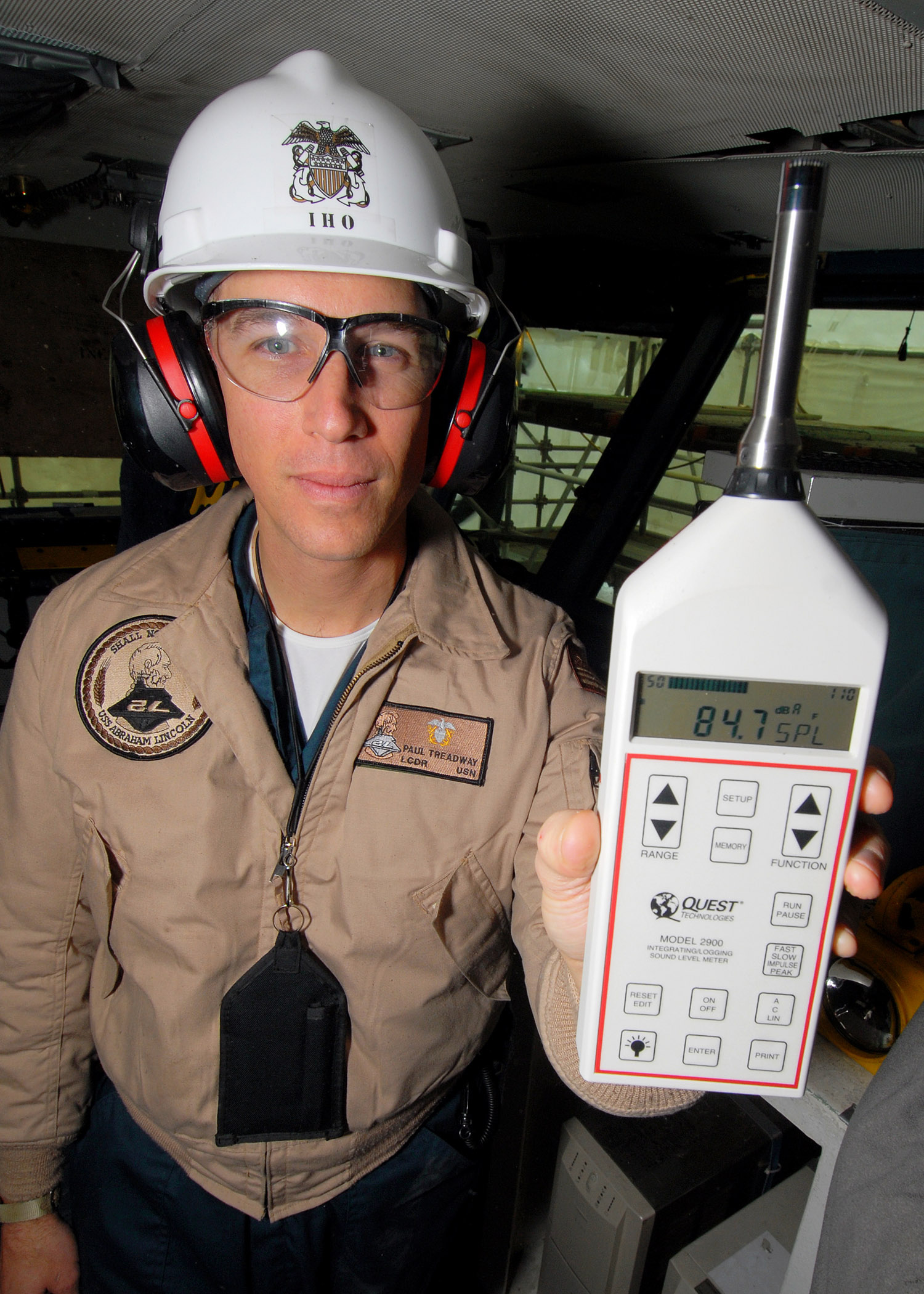 Puget Sound (Oct. 26, 2006) - Lt. Cmdr. Paul Treadway, Industrial Hygiene Officer and Assistant Safety Officer of the Nimitz-class aircraft carrier USS Abraham Lincoln (CVN 72), uses a sound level meter to demonstrate the high decibel levels on Lincoln's flag bridge as spaces are being rehabilitated. Treadway and other ship and shipyard safety personnel conduct daily safety walkthroughs throughout the ship to ensure Sailors and workers are wearing proper personal protective equipment to protect against industrial hazards such as high noise levels. Lincoln is currently in dry dock at Puget Sound Naval Shipyard undergoing rehabilitation and maintenance as part of a Dry Dock Planned Incremental Availability period. U.S. Navy photo by Mass Communication Specialist Seaman James R. Evans (RELEASED)